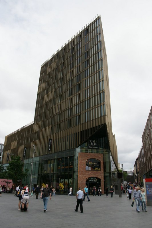 BridgeStreet Apartments and Waterstone's, Liverpool ONE, Liverpool, England.